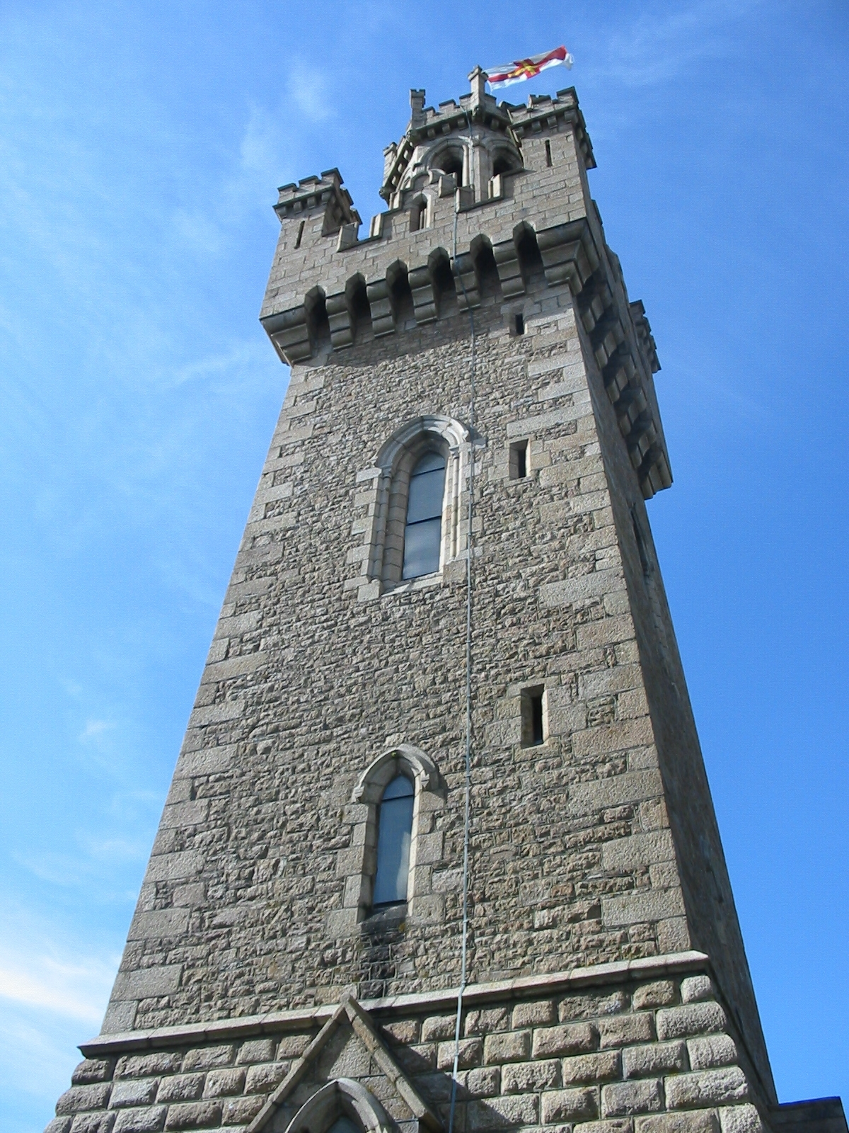 Victoria Tower, Guernsey